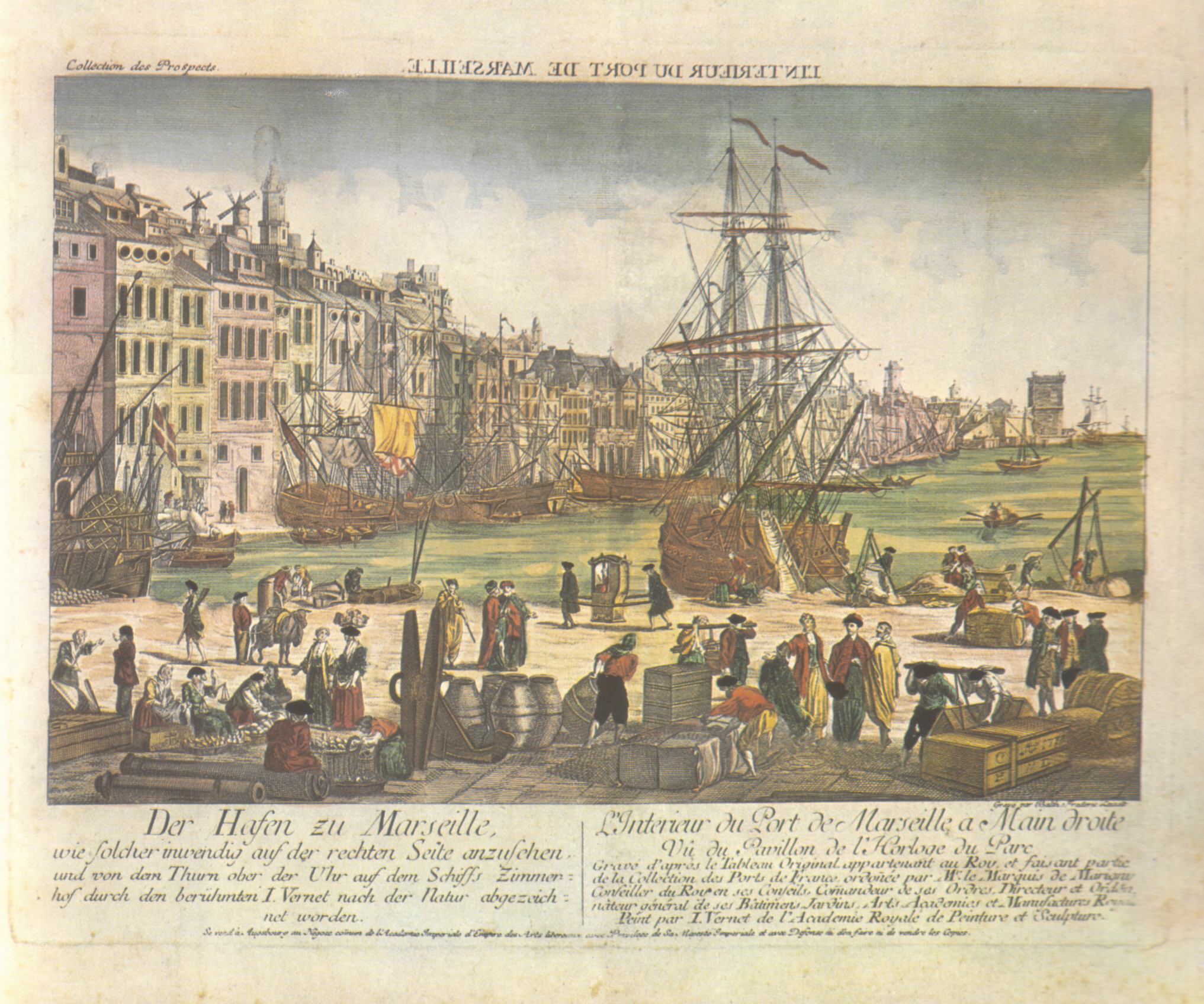 Harbour of Marseille; perspective view, Augsburg 1778